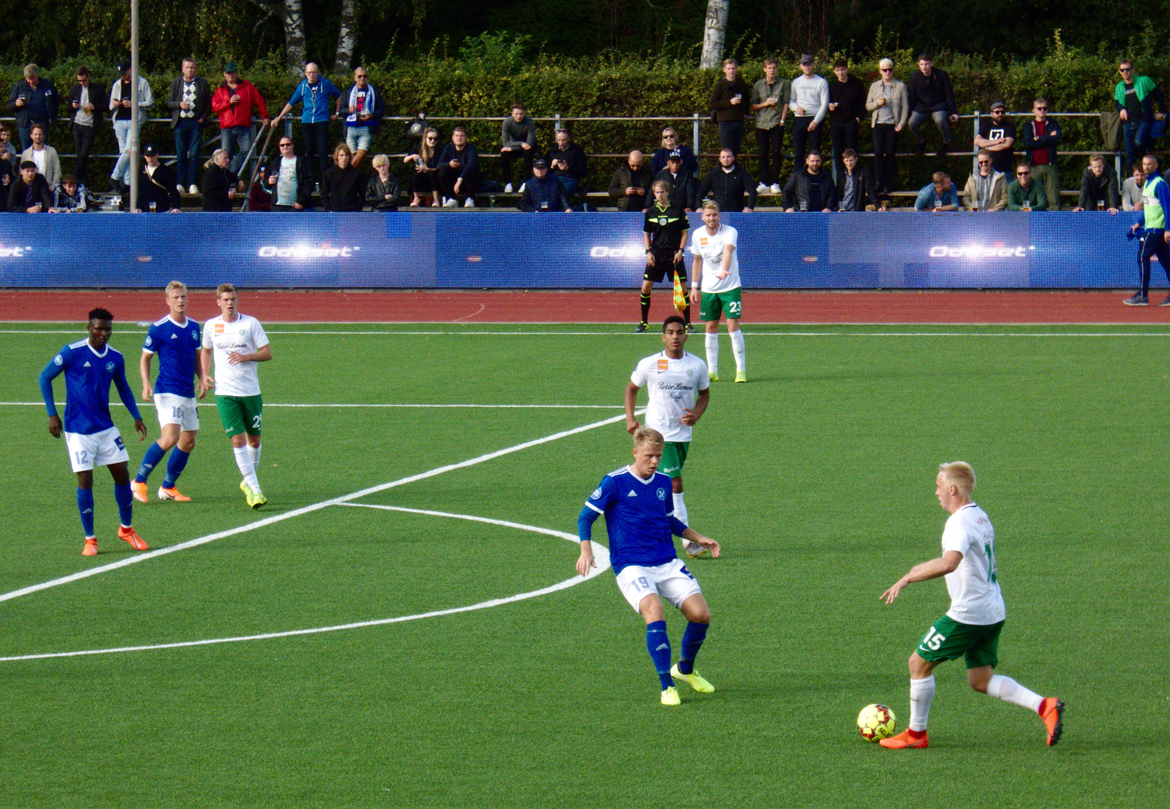 Viborg FF player Mads Aaquist on the attack in a match against BK Fremad Amager in the Danish 1st division.